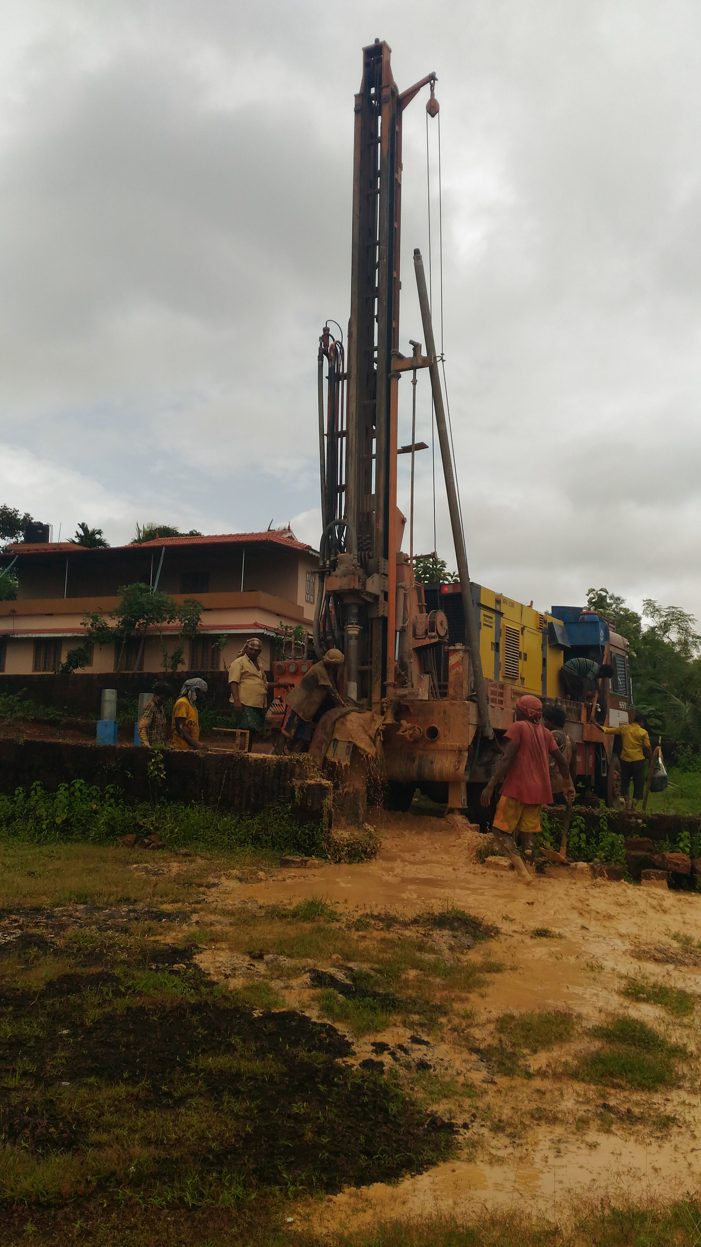 Borewell_digging. Note: A borehole is a narrow shaft bored in the ground, either vertically or horizontally. A borehole may be constructed for many different purposes, including the extraction of water, other liquids (such as petroleum) or gases (such as natural gas), as part of a geotechnical investigation, environmental site assessment, mineral exploration, temperature measurement, as a pilot hole for installing piers or underground utilities, for geothermal installations, or for underground storage of unwanted substances, e.g. in carbon capture and storage.